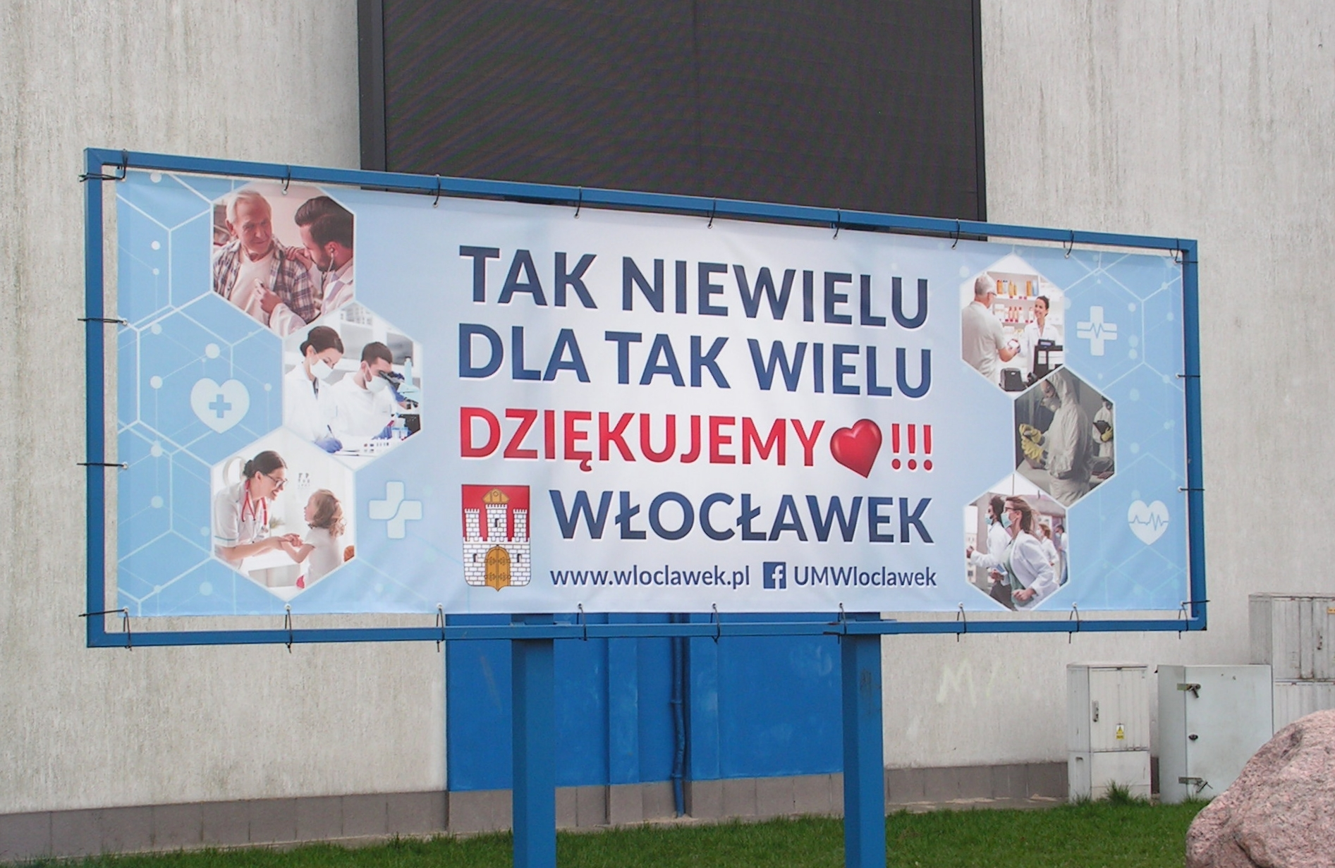 Poster with inscription: "Tak niewielu dla tak wielu. Dziękujemy. Włocławek" ("So few for so many. Thank you. Włocławek" in front of city hall. It is a thanks for a medical service which is working during the coronavirus pandemic.